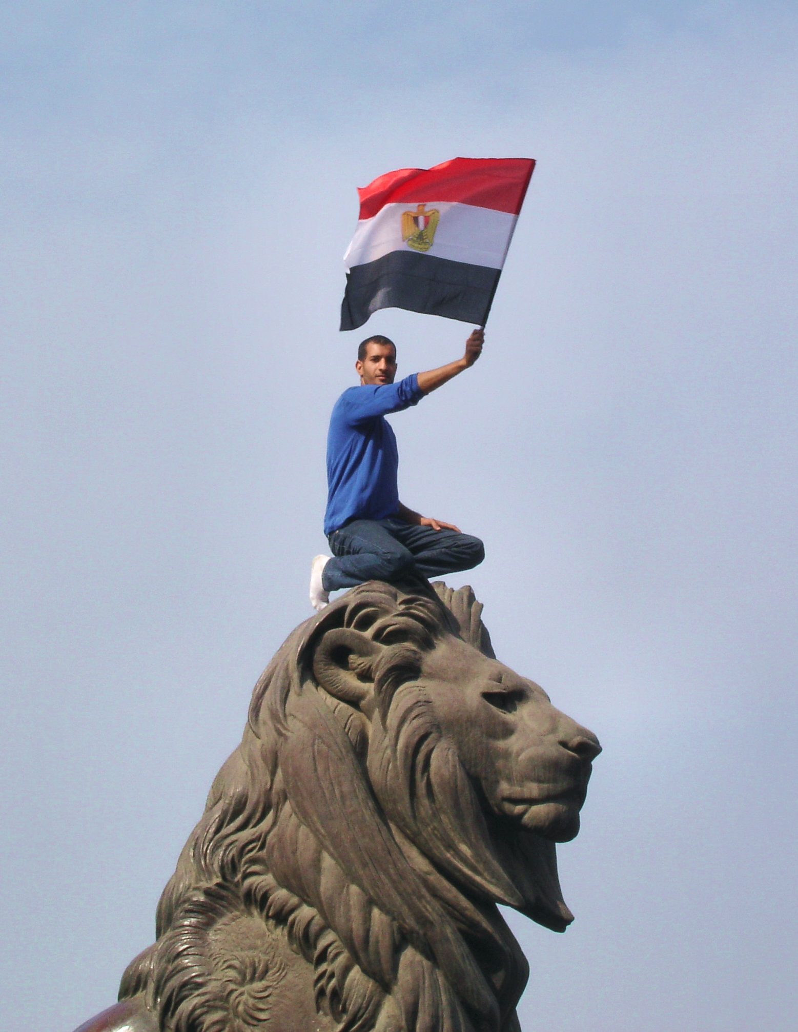 A picture of an Egyptian protester during the 2011 Egyptian revolution holding the Egyptian flag.